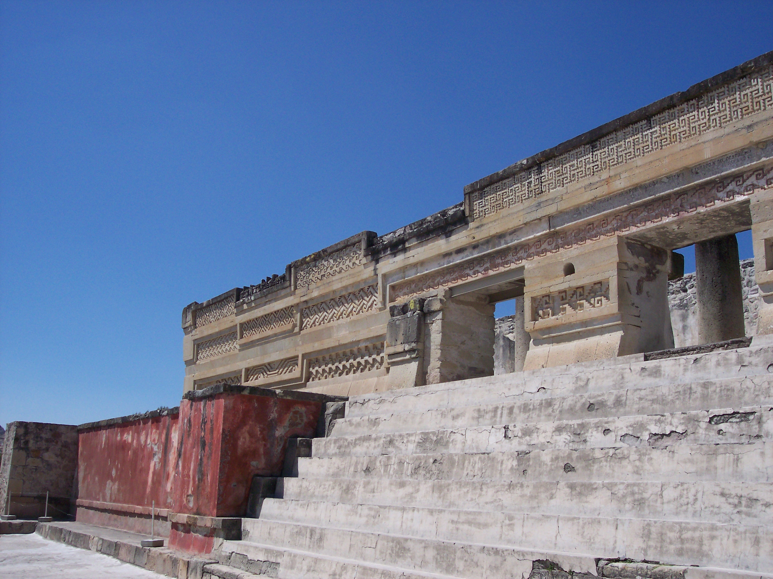 Image from the archeological site Mitla. Oaxaca, Mexico.